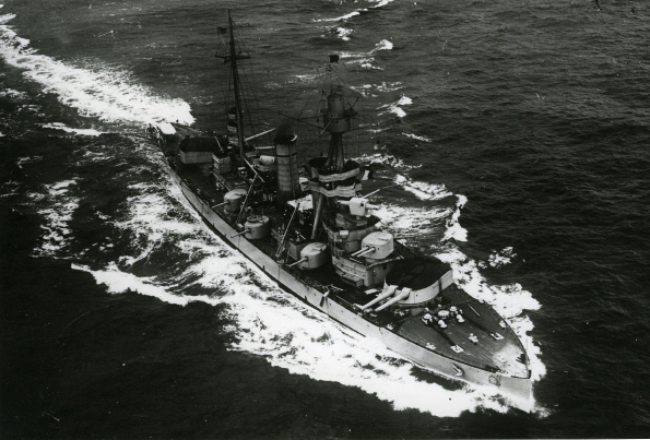 The Swedish coastal defence ship HMS Drottning Victoria.